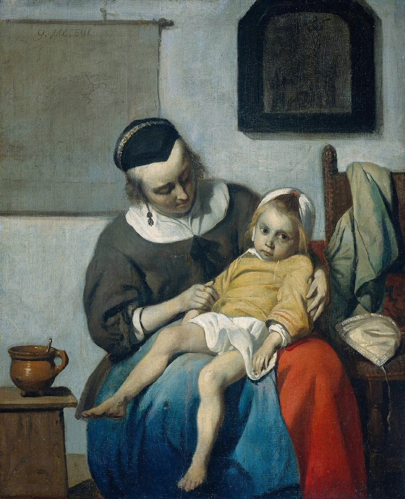 The pale, sick child hangs limply in the woman's lap. Beside them on the cupboard stands a stoneware bowl with spoon. On the wall behind hang a maps which has been rolled open, and a framed print showing the Crucifixion of Christ.